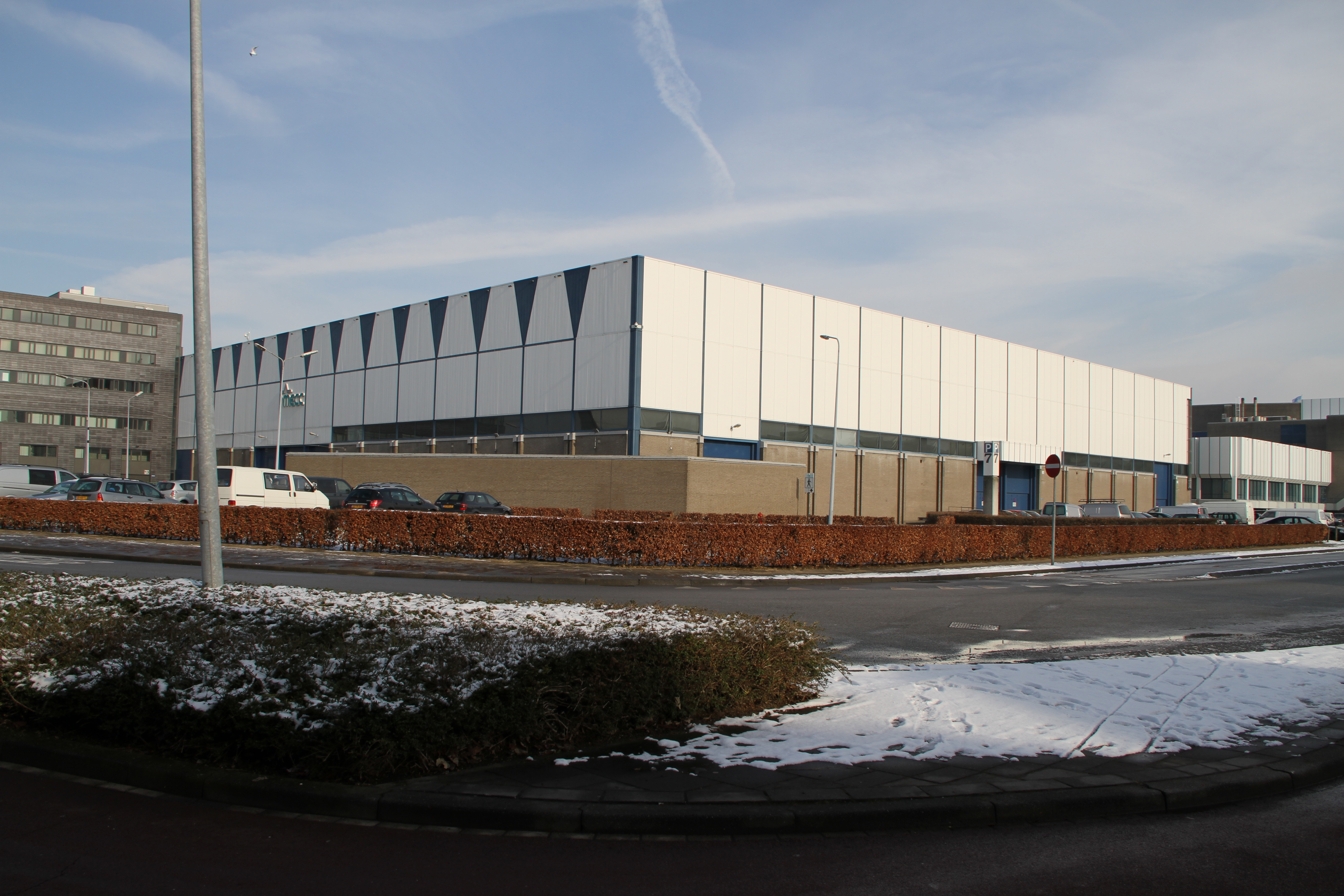 View from Randwijck